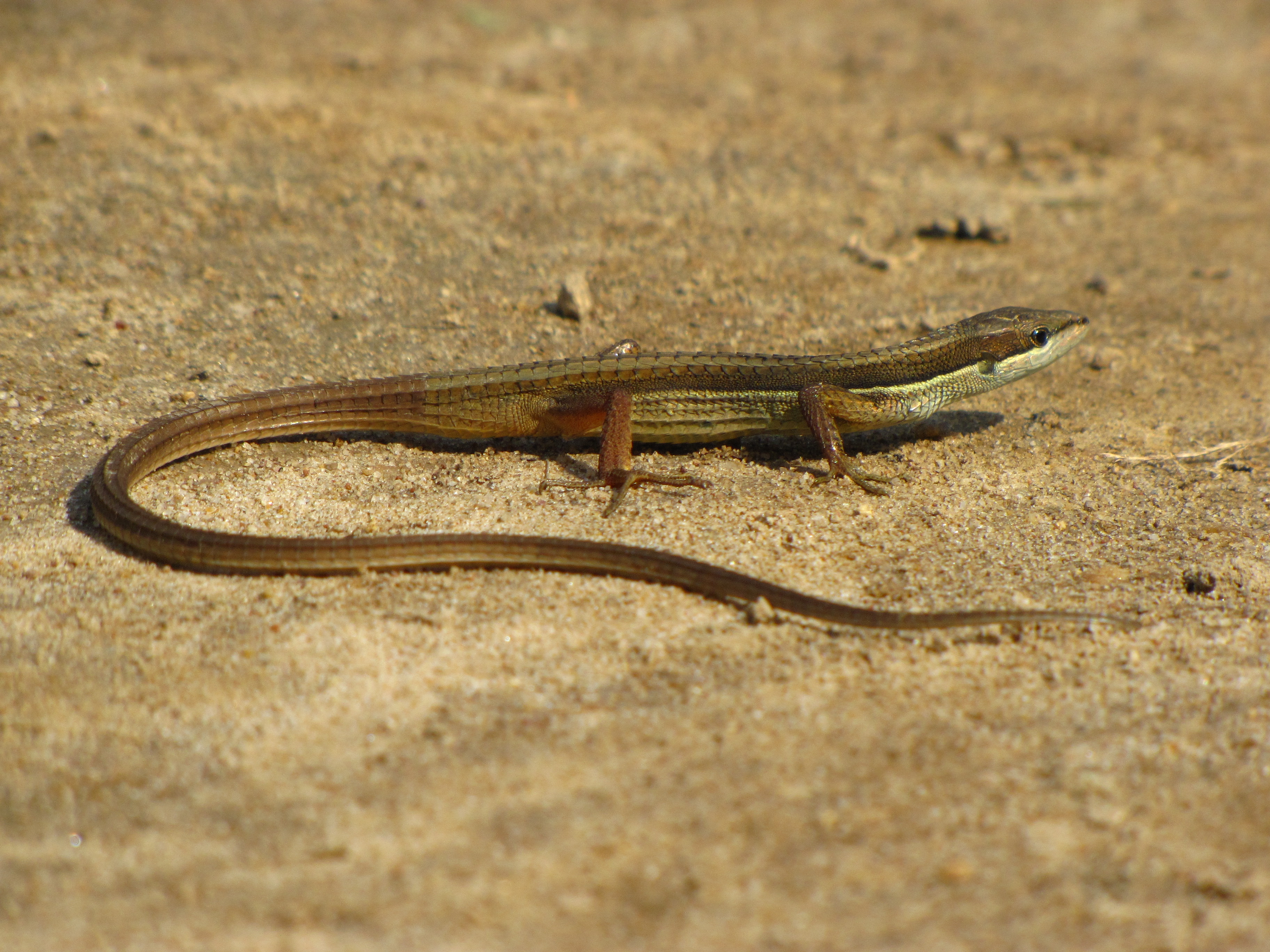 Taken in Namdapha Tiger Reserve